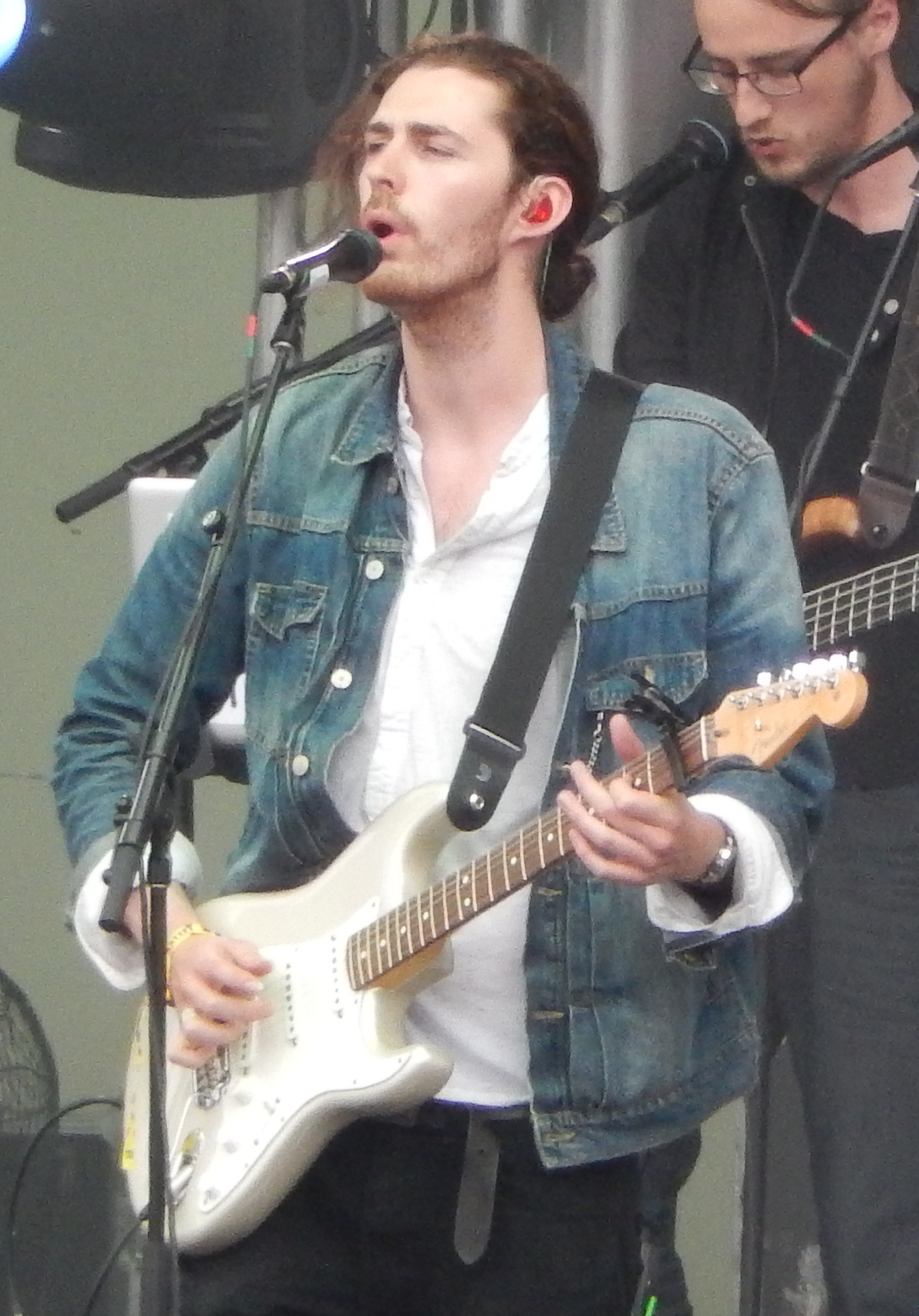 Hozier at Lollapalooza in Chicago, 2014.